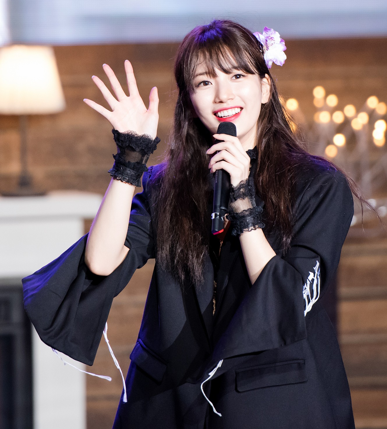 Suzy at her first fanmeeting, 16 October 2016